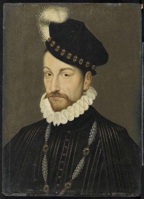 Portrait of Charles IX of Francelabel QS:Lde,"Porträt Karls IX. von Frankreich"label QS:Len,"Portrait of Charles IX of France"label QS:Lfr,"Portrait de Charles IX de France"